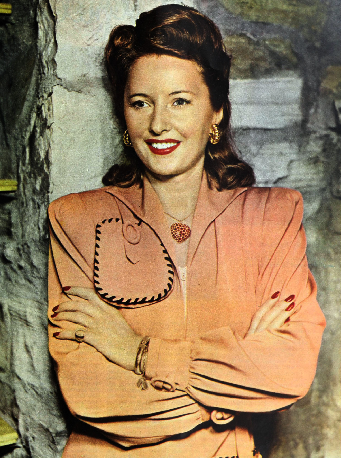 Photo of actress Barbara Stanwyck from 1943.